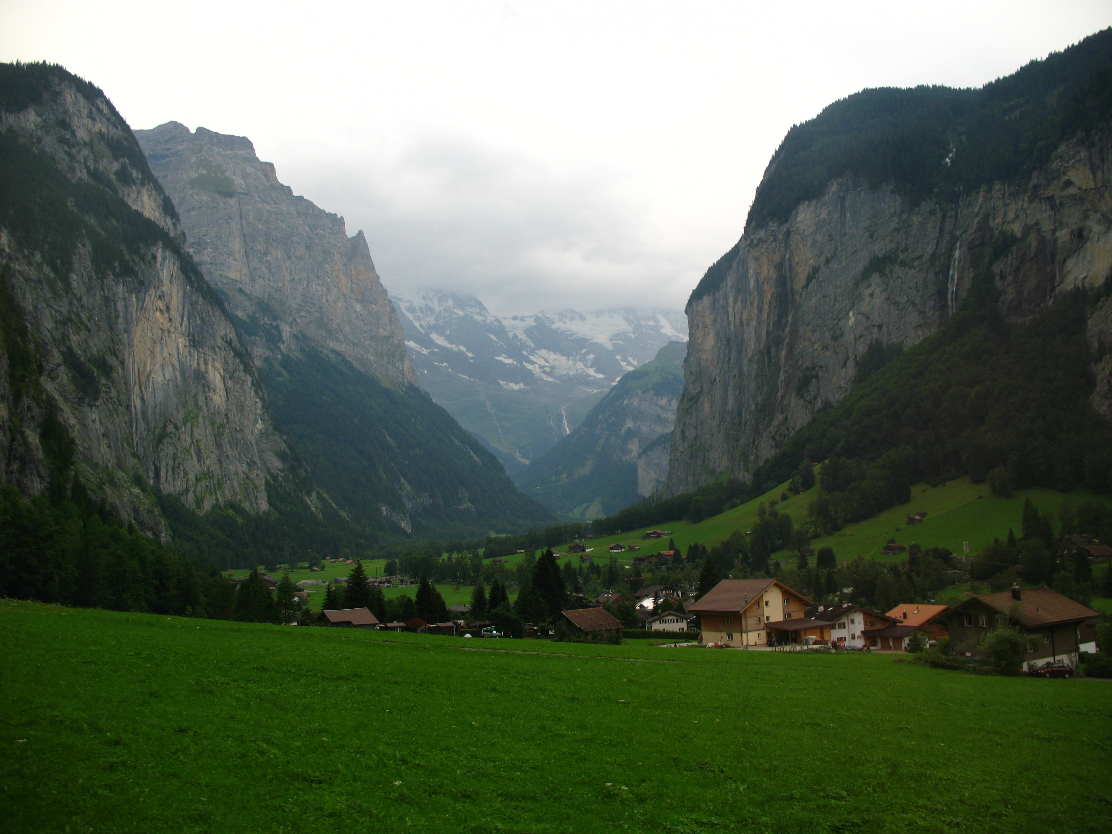 View from the Wengernalpbahn, Lauterbrunnental Valley, Switzerland